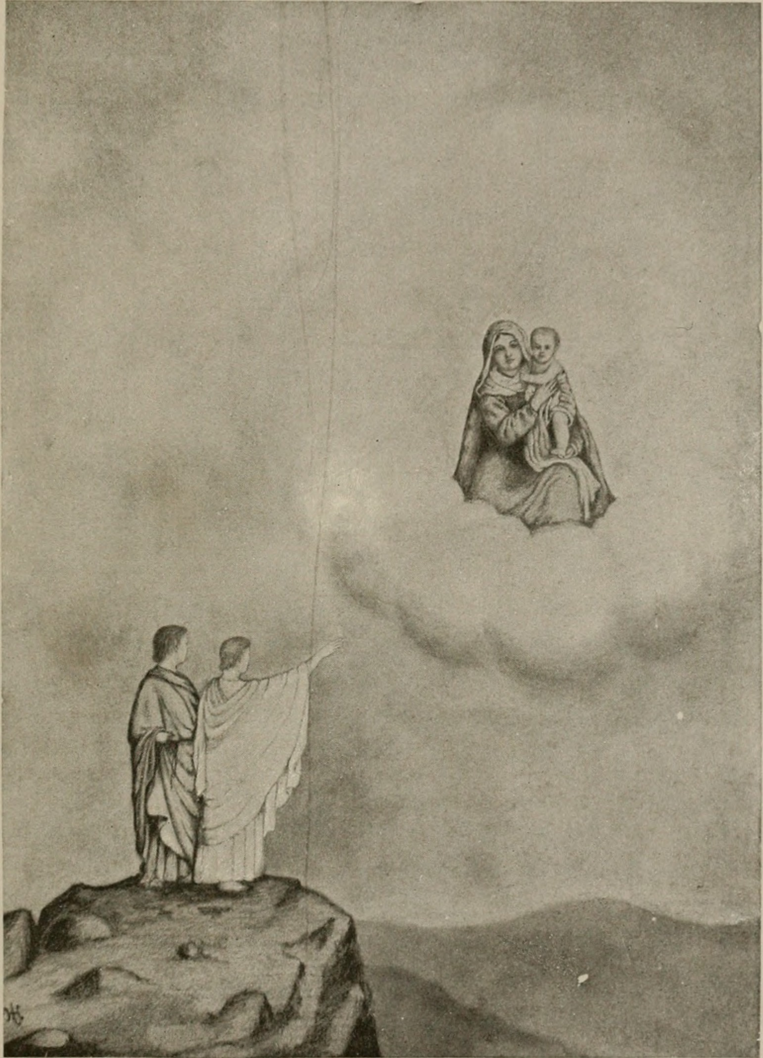 Identifier: storyofbookofmor00reynrich Title: The story of the Book of Mormon Year: 1888 (1880s) Authors: Reynolds, George Subjects: Publisher: Salt Lake City, J. H. Parry Text Appearing Before Image: things which he de-sired. When the Spirit left him he was shewn Jeru-salem and other cities, and especially Nazareth, andtherein a virgin exceedingly white and fair. Whilegazing upon this scene, he beheld the heavens open,and an angel came down and stood before him, whoexplained to him the various scenes that were broughtbefore his vision. The virgin that Nephi saw was named Mary ; shewas the mother of Jesus. And the angel next shewedhim the virgin with the babe in her arms. Theangel also shewed him the Savior; how he should bebaptized of John in the Jordan; how he went forthamong the people preaching the gospel and doing mar-velous works, and how that he was taken and cruci-fied, and thus died for the sins of tlie world. Nephifurther saw how the world fought against the disciplesof Christ, and how, in the end, all those who contendedagainst Heaven and against Gods servants were dc-stro3ed. Furthermore he was shewn the land of Americafilled with a numerous people, who were the seed oi Text Appearing After Image: VISION OK NEPHI.